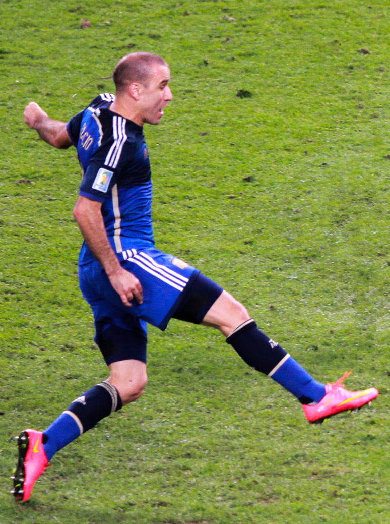 Palacio in the final of the World Cup 2014